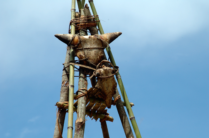 The heads of these sacrificed animals were hanged over the grave of one Apatani man in Ziro. They performed some Puja and sacrifce animals on the death of near ones.